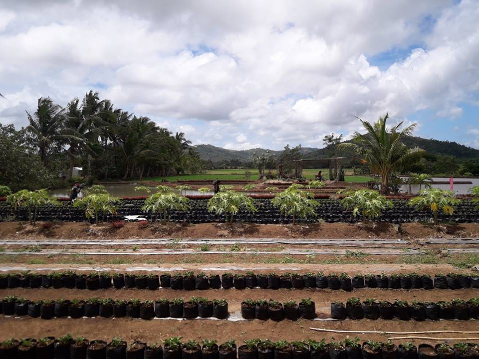 Strawberry Farm @ Pinit, Ocampo, Camarines Sur